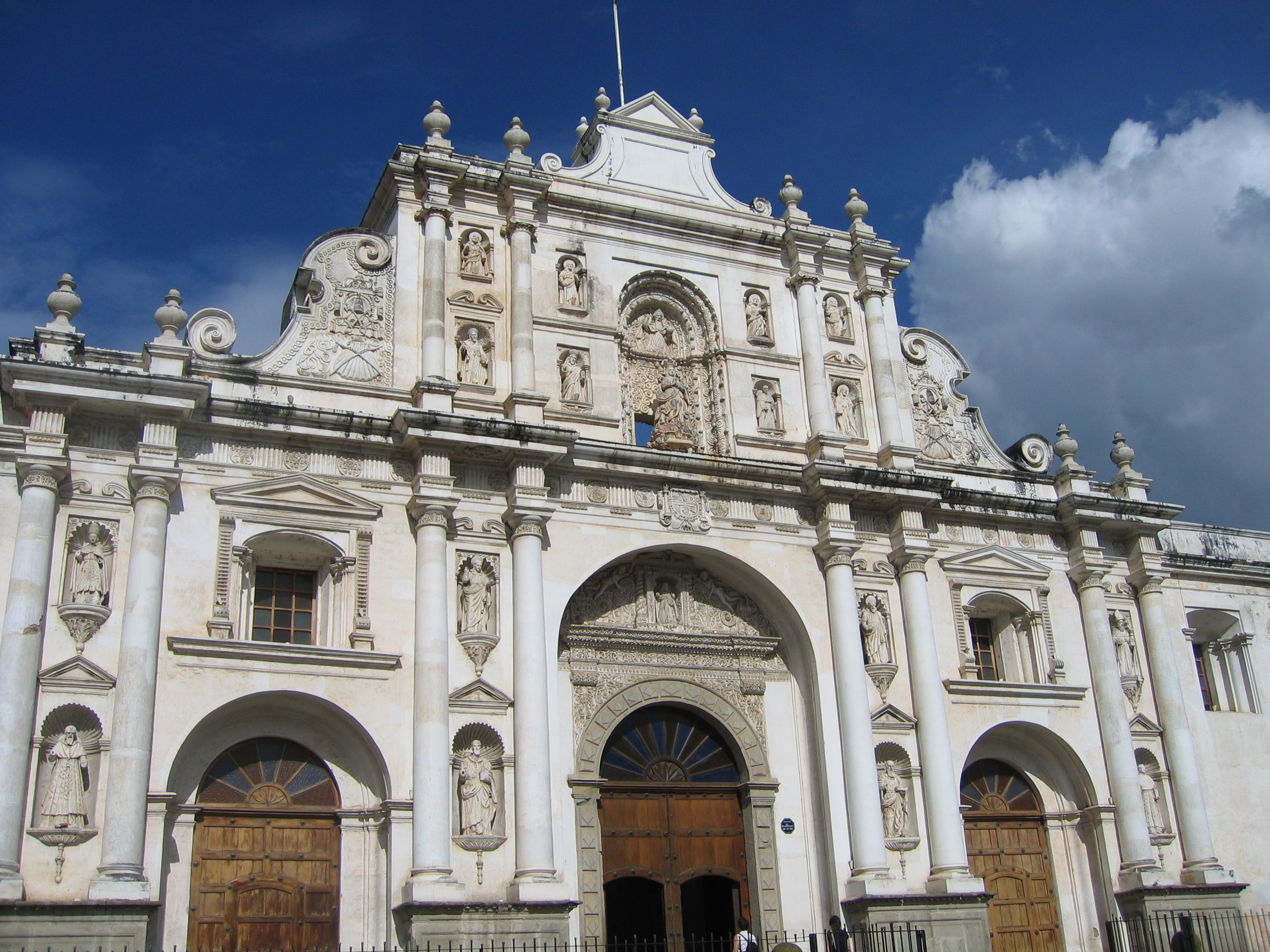 Antigua (Guatemala), cathedral, August 2006